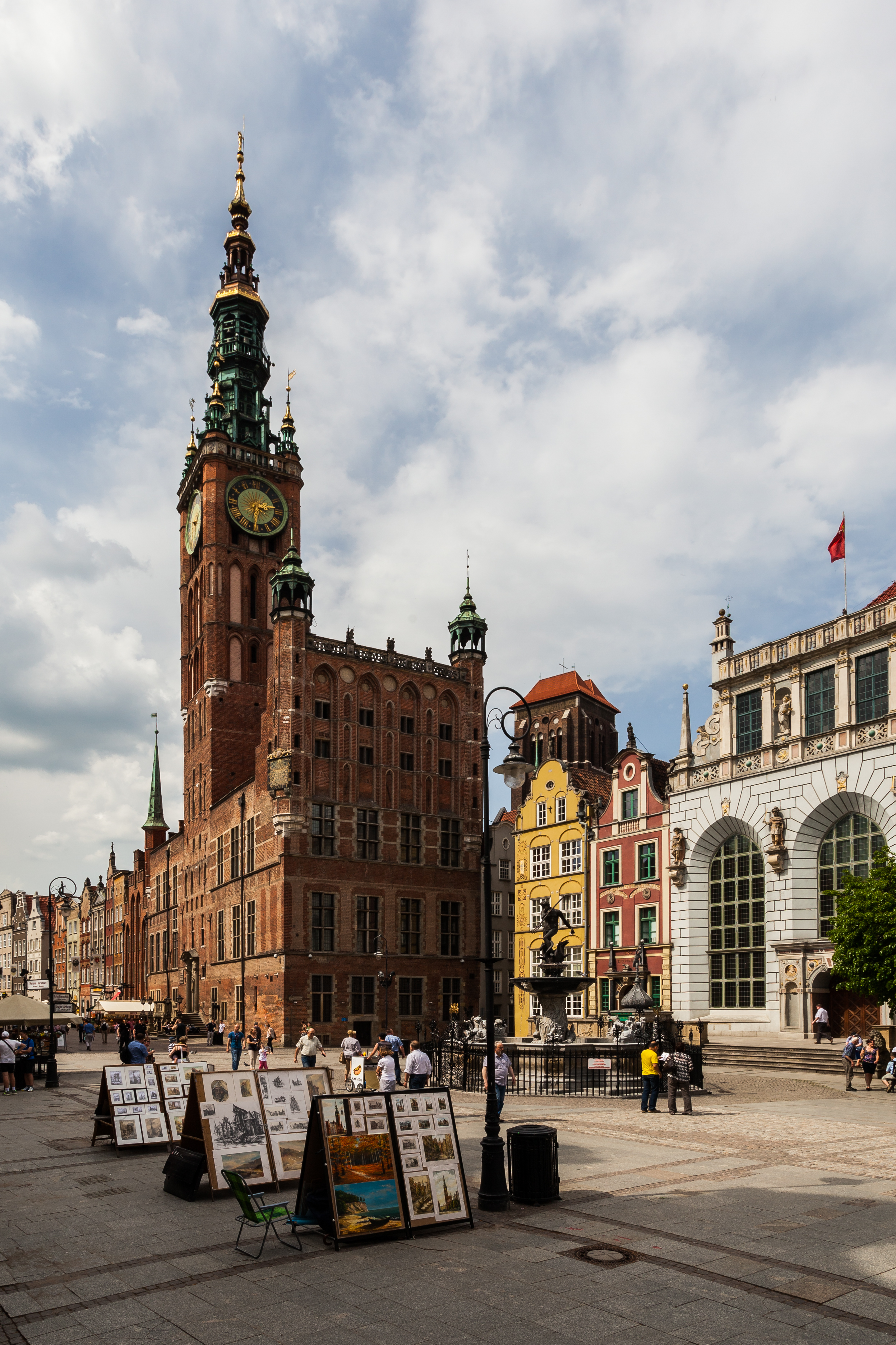 Main Town Hall, Gdansk, Poland